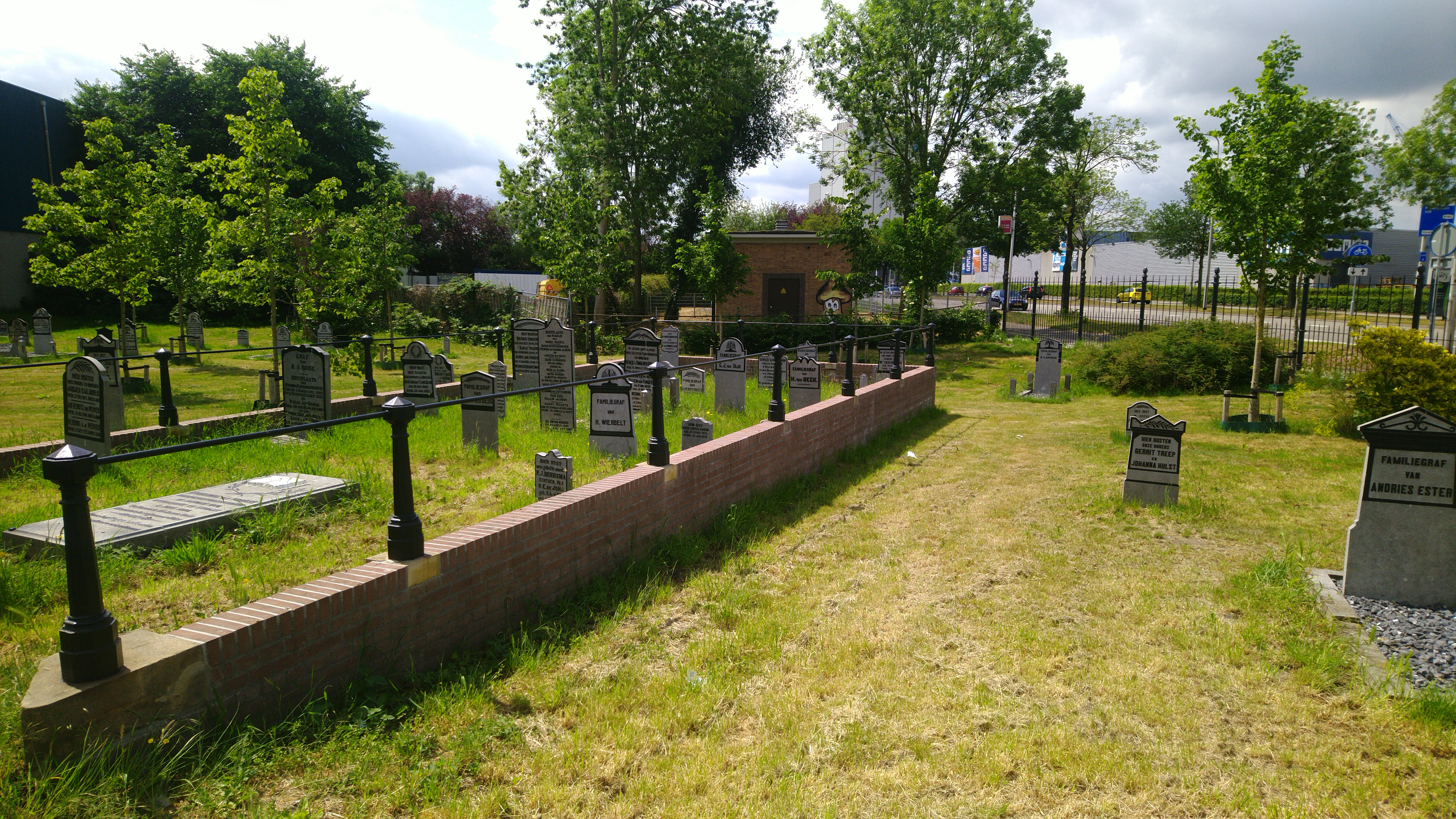 Picture taken from the North, de Buitengasthuisstraat.